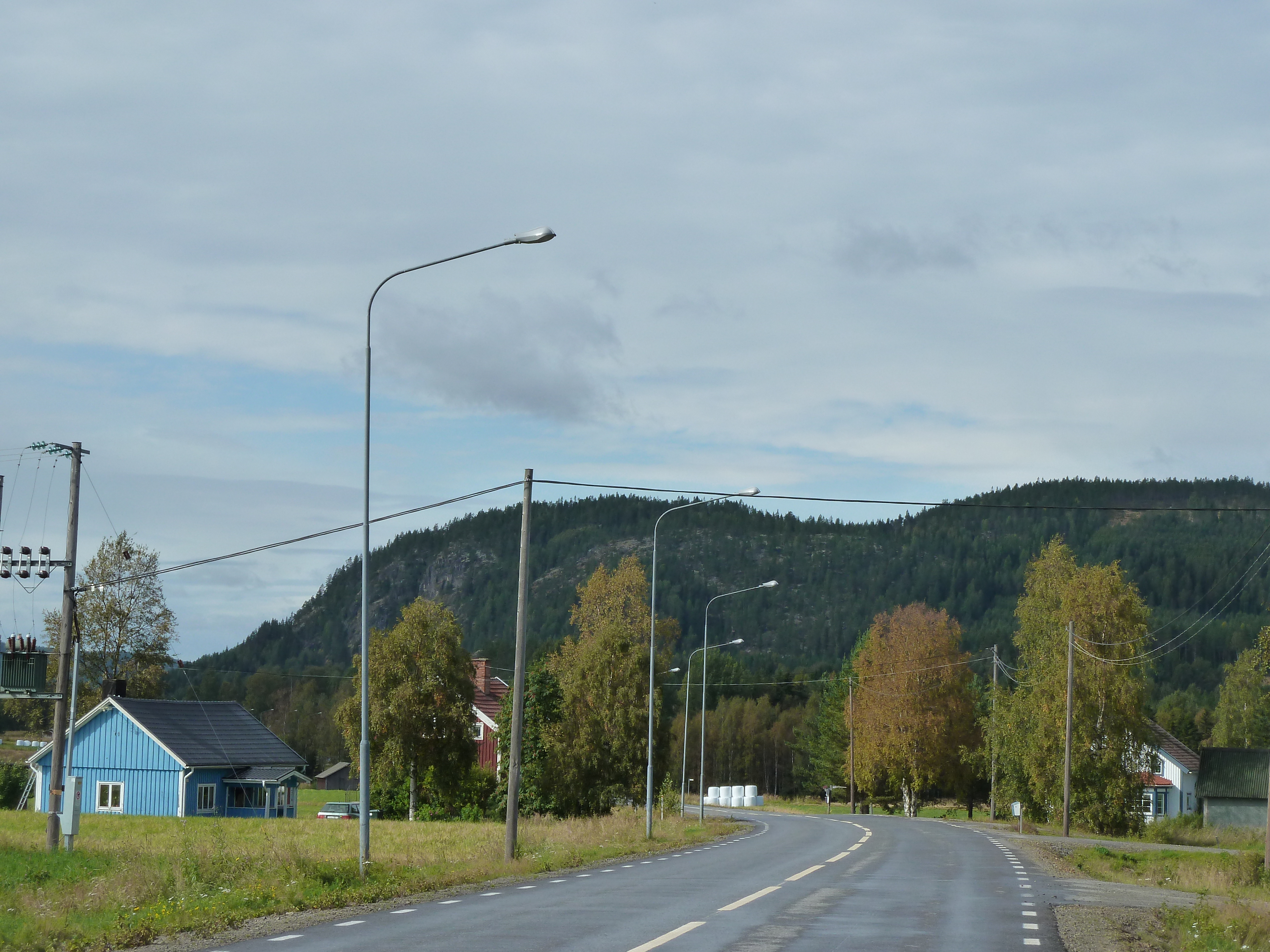 Kubbe with Arneberget, Örnsköldsvik, Sweden